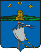 Elatma (Ryazan oblast), coat of arms (1781)